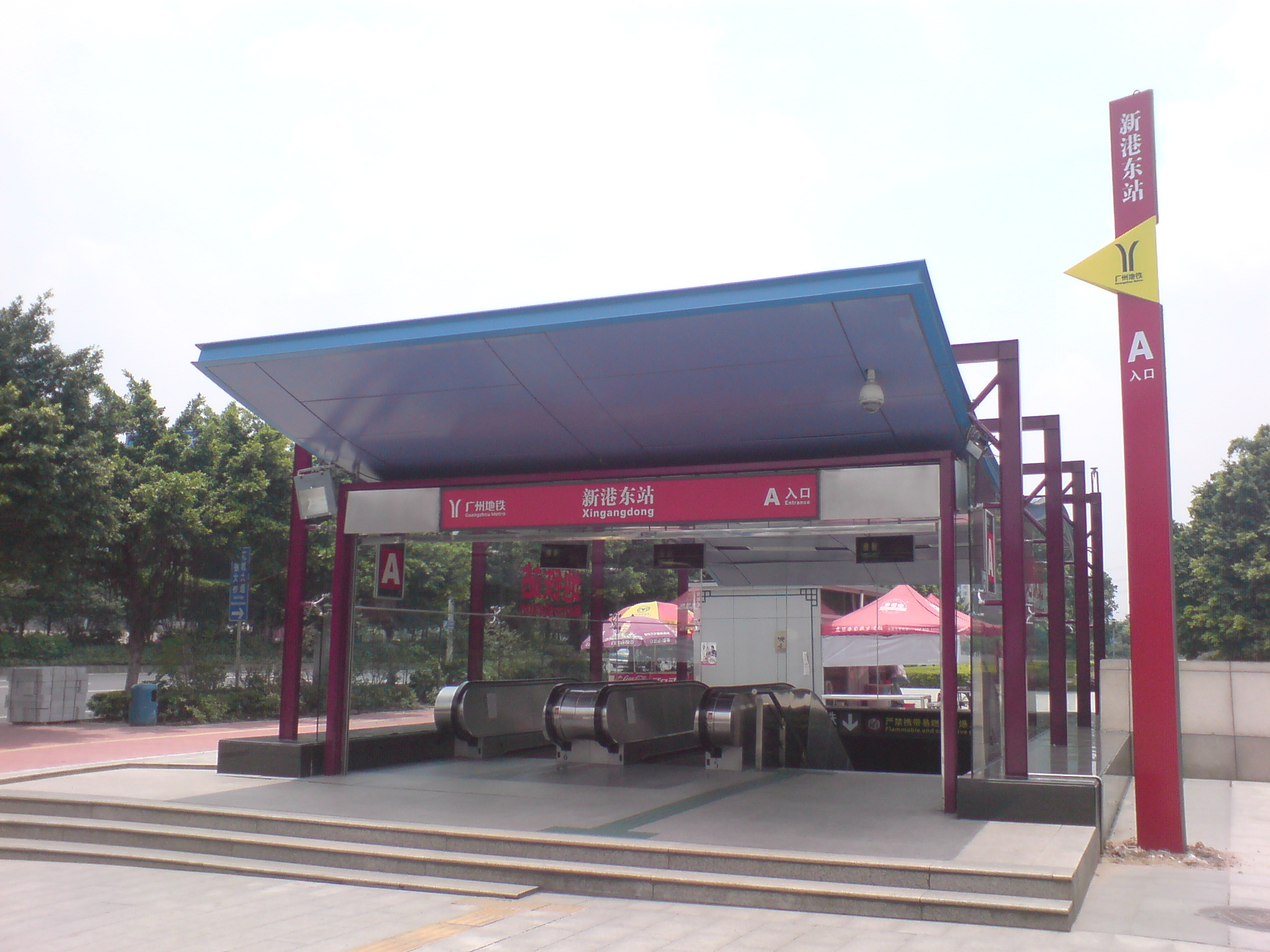 Entrance A, Xingangdong Station, Guangzhou Metro